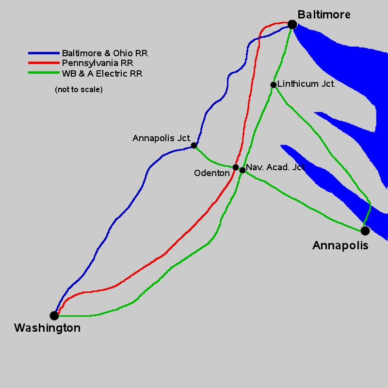 Map showing Washington, Baltimore, and Annapolis rail connections at the height of interurban rail transit in the early 20th century